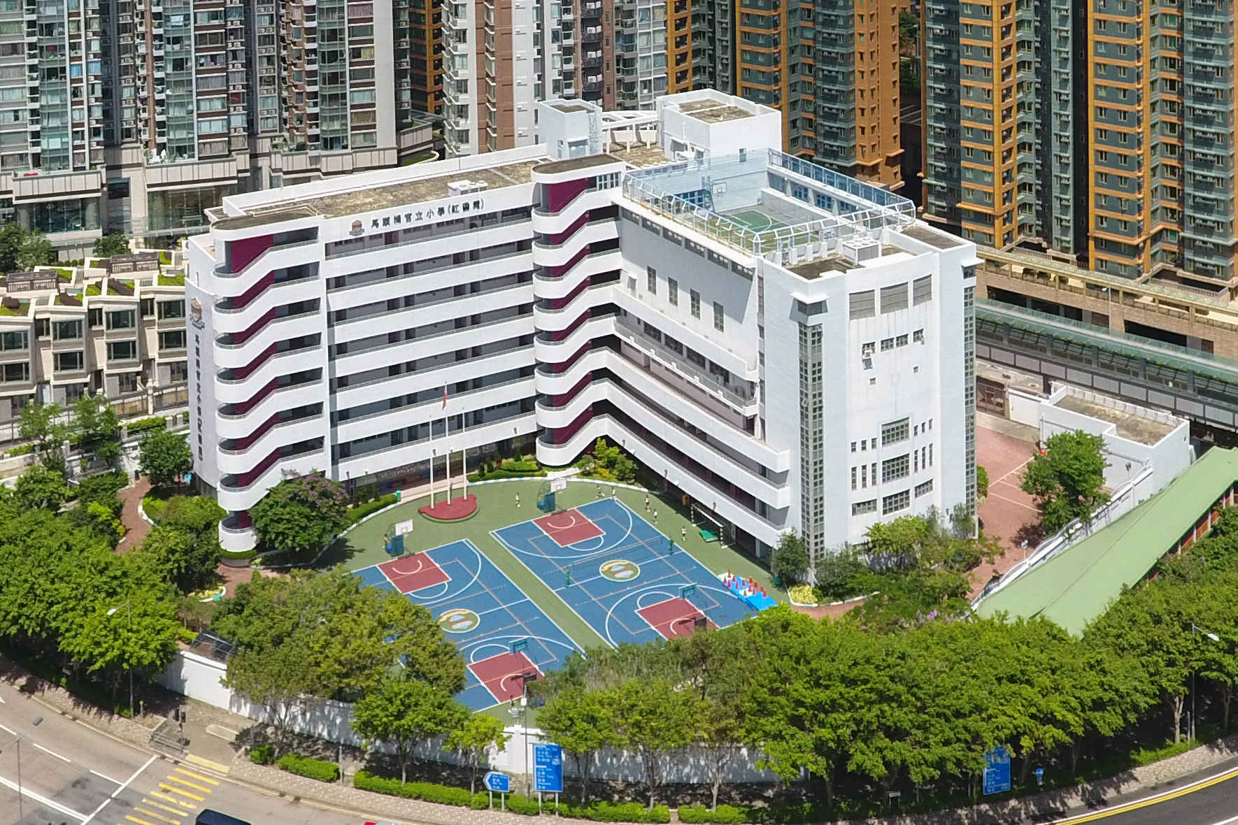 Ma Tau Chng Government Primary School